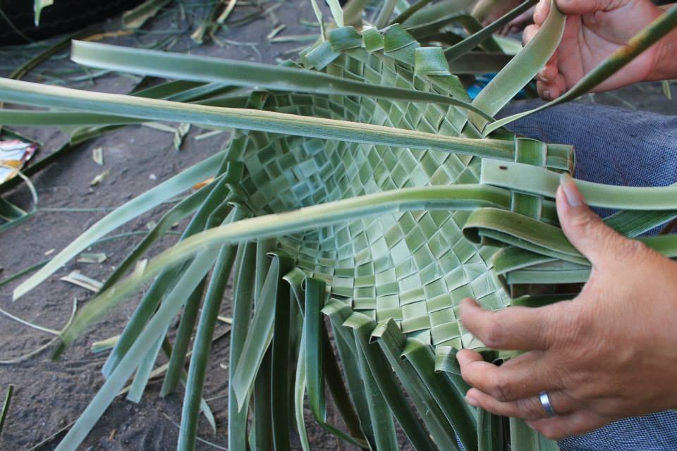 Bay-ong weaving in Bulusan (June 2015)